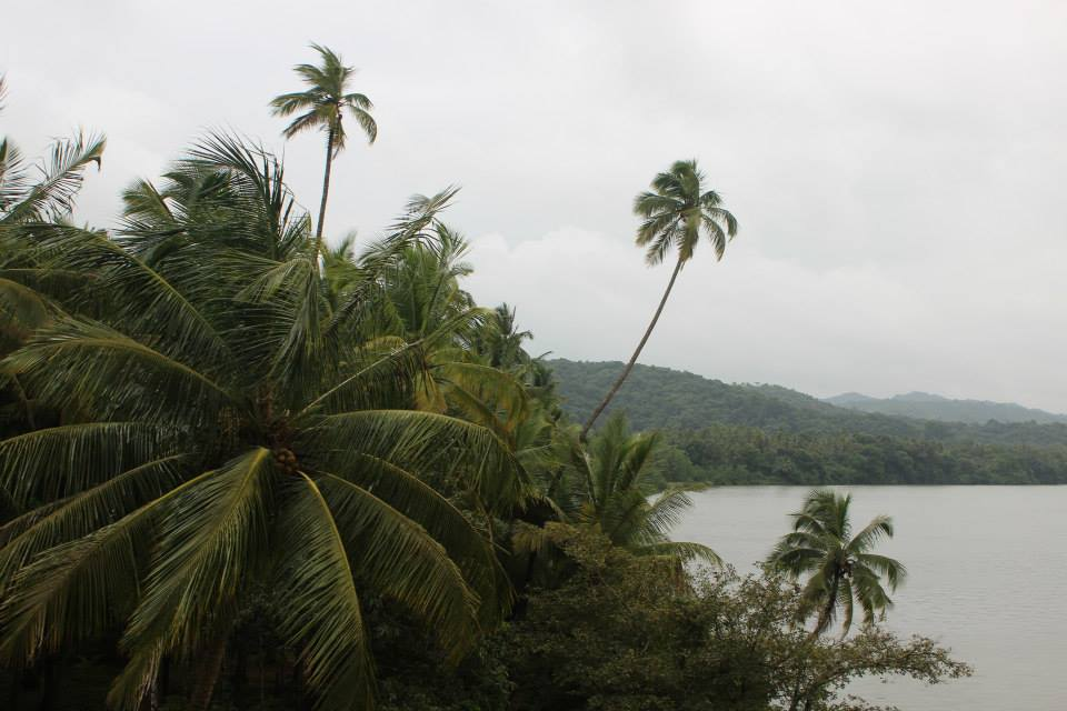 A scenic place near Karli river.